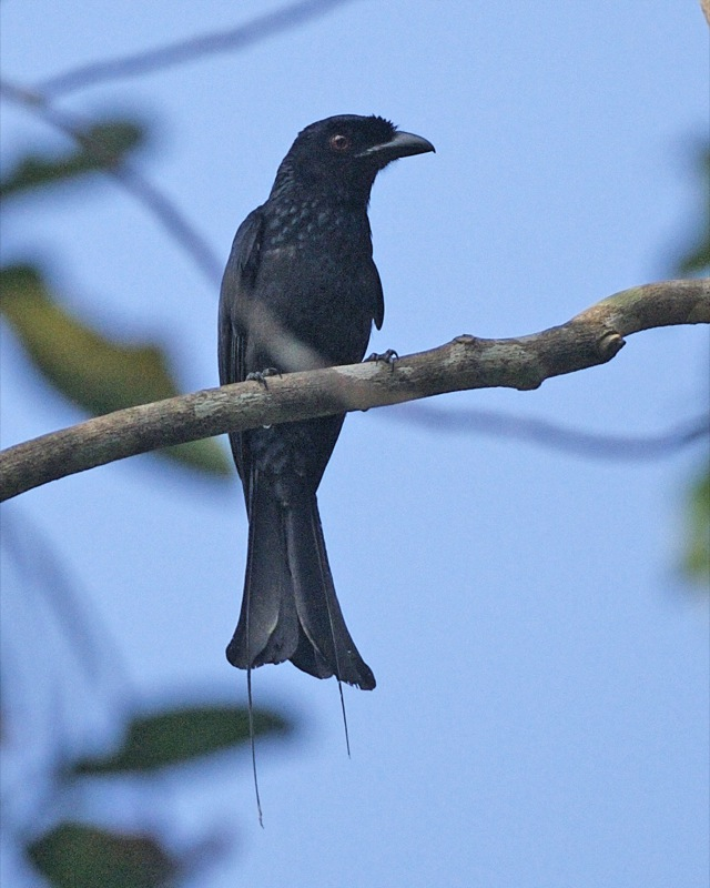 Greater Racket-tailed Drongo Dicrurus paradiseus ssp Dicrurus paradiseus platurus Pierce Reservoir, Singapore 26th. April 2009